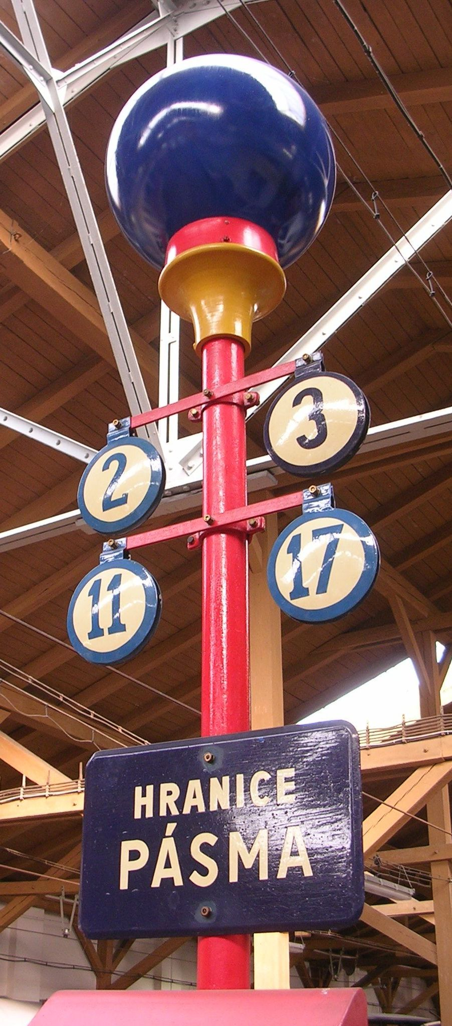 Střešovice, Prague, the Czech Republic. Historical tram stop.